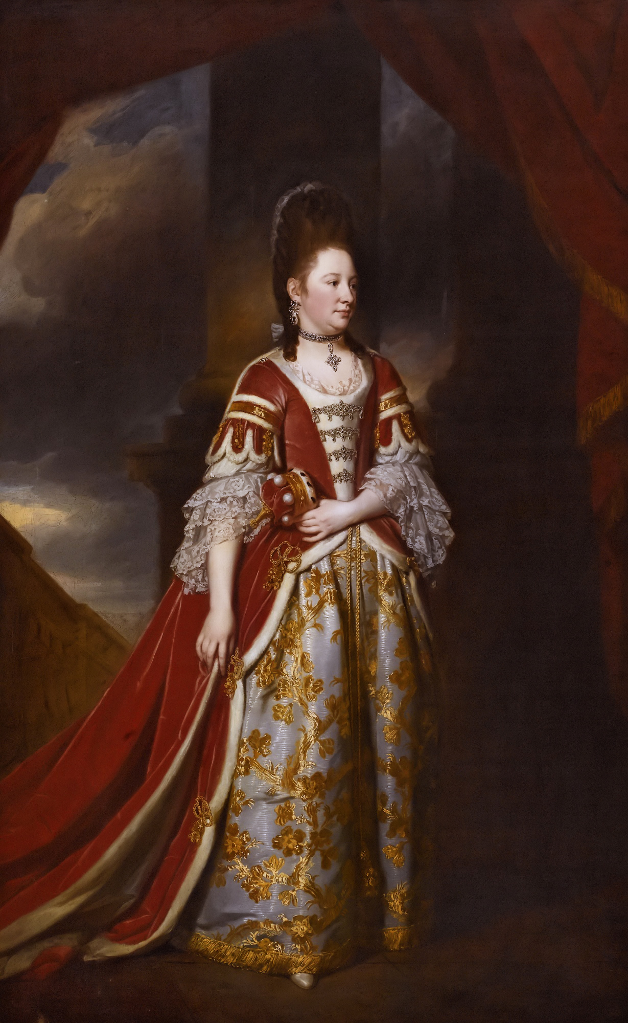 Mary Christina Conquest, Lady Arundell of Wardour (ca 1743-1813), in coronation robes